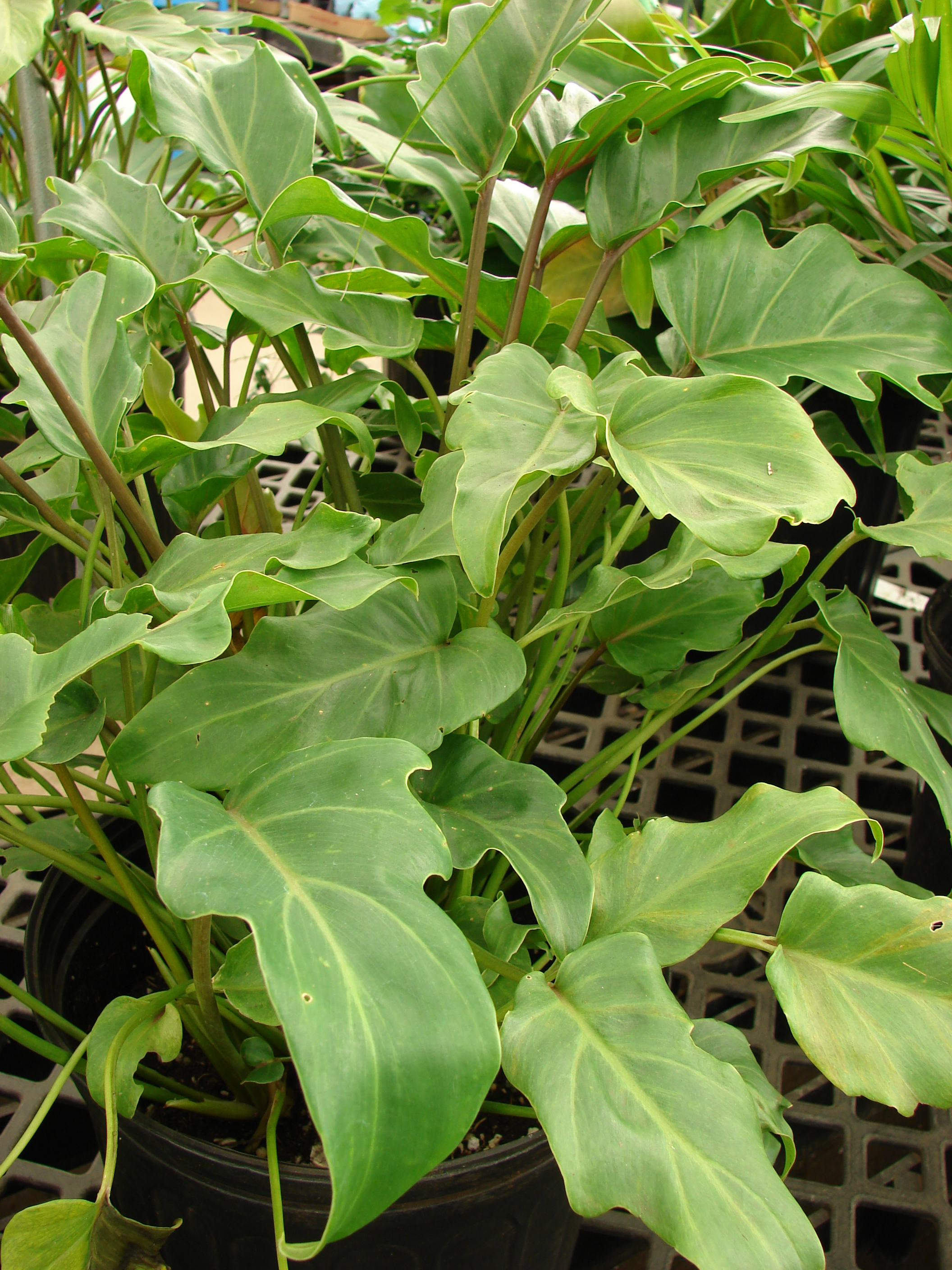 Philodendron sp. (Xanadu habit). Location: Maui, Walmart Kahului